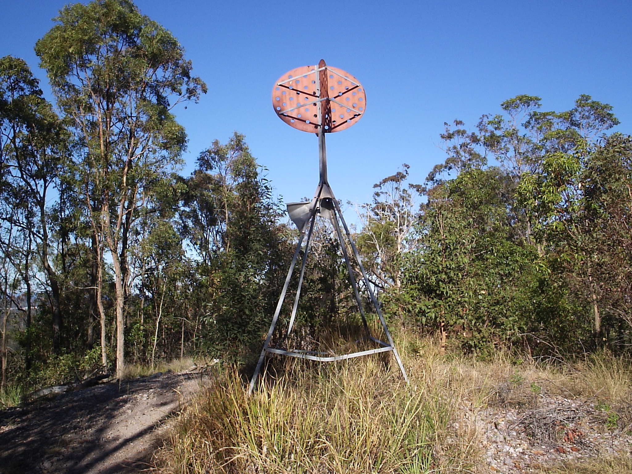 The triangulation tower on top of Mt. Petrie ,Brisbane Taken By Lee Jamieson II. I grant this image free use to anyone, however it may not be charged for by means of money transaction or sold for profit.